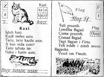 Reading book (school book for children to learn read) in Veps language.